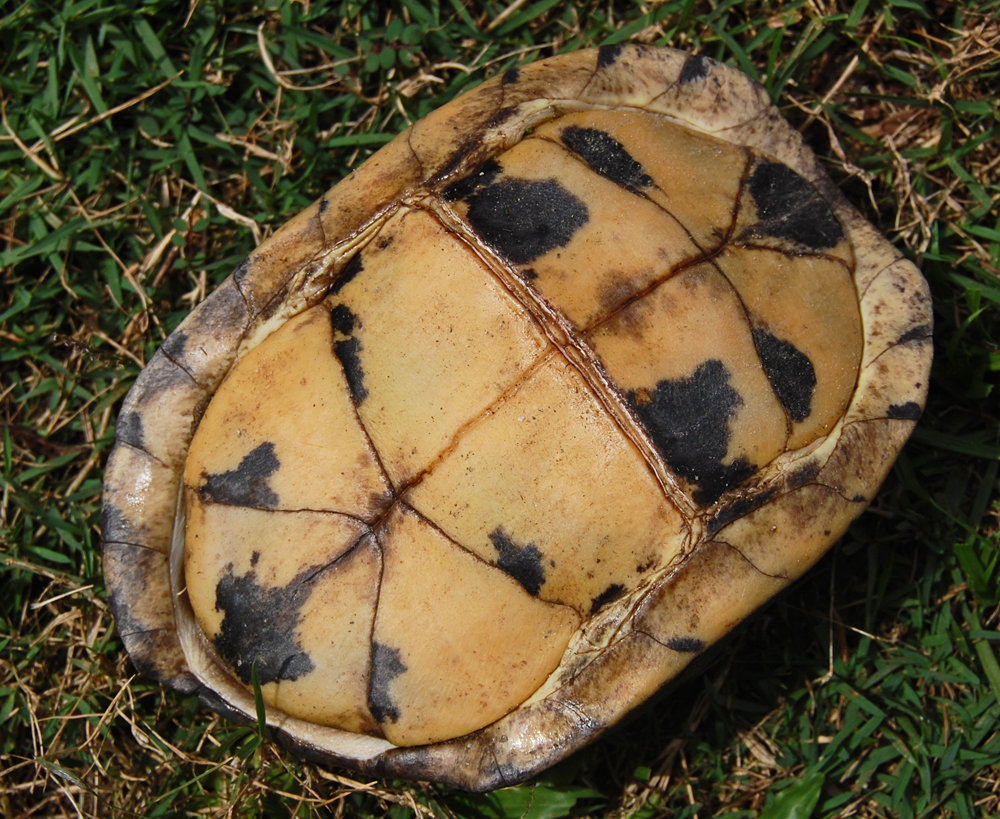 Cuora amboinensis from Simeulue, Indonesia. Plastron, head position is upper right.